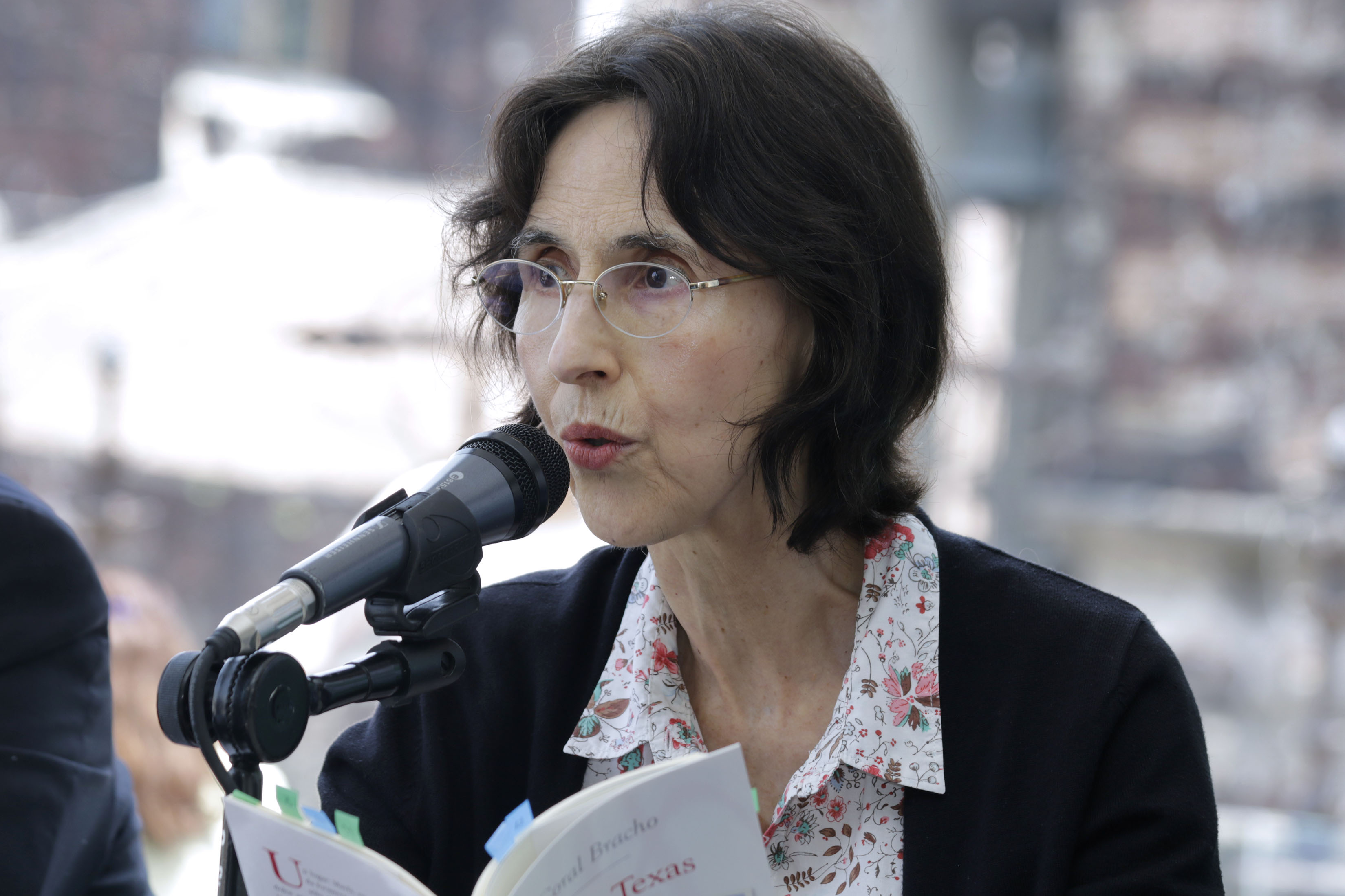 Coral Bracho at a reading in Mexico City. Sunday, July 2, 2017. Picture by Tania Victoria / Secretaria de Cultura CDMX.